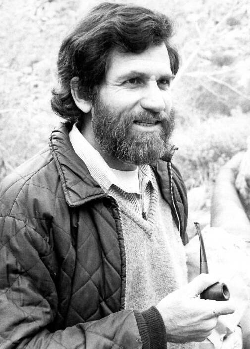 Head and shoulders photo portrait of Allan Kaprow, taken in Feburary, 1973.